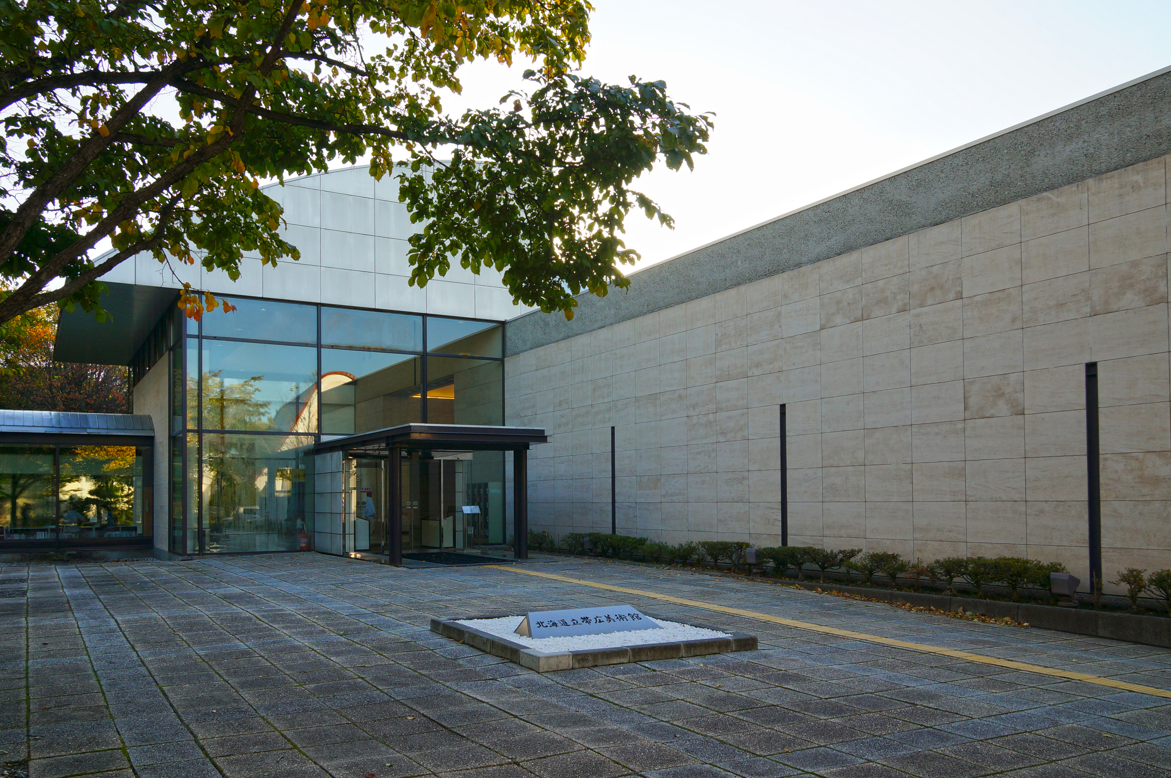 Hokkaido Obihiro Museum of Art in Obihiro, Hokkaido prefecture, Japan.